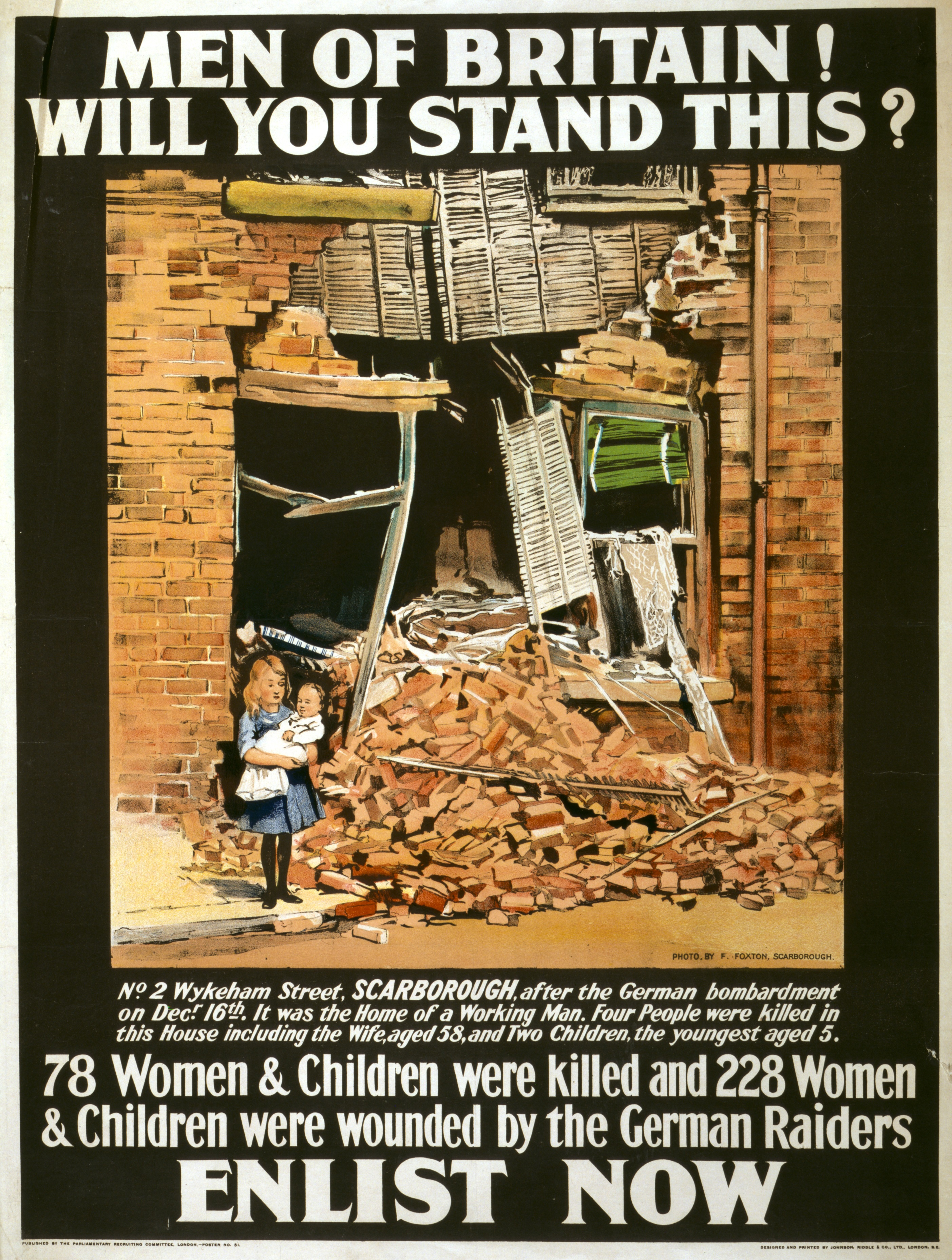 British propaganda poster : "Men of Britain ! Will You Stand This ?" referring to civilian casualties and destruction caused by the German Raid on Scarborough, Hartlepool and Whitby on 16 December 1914.